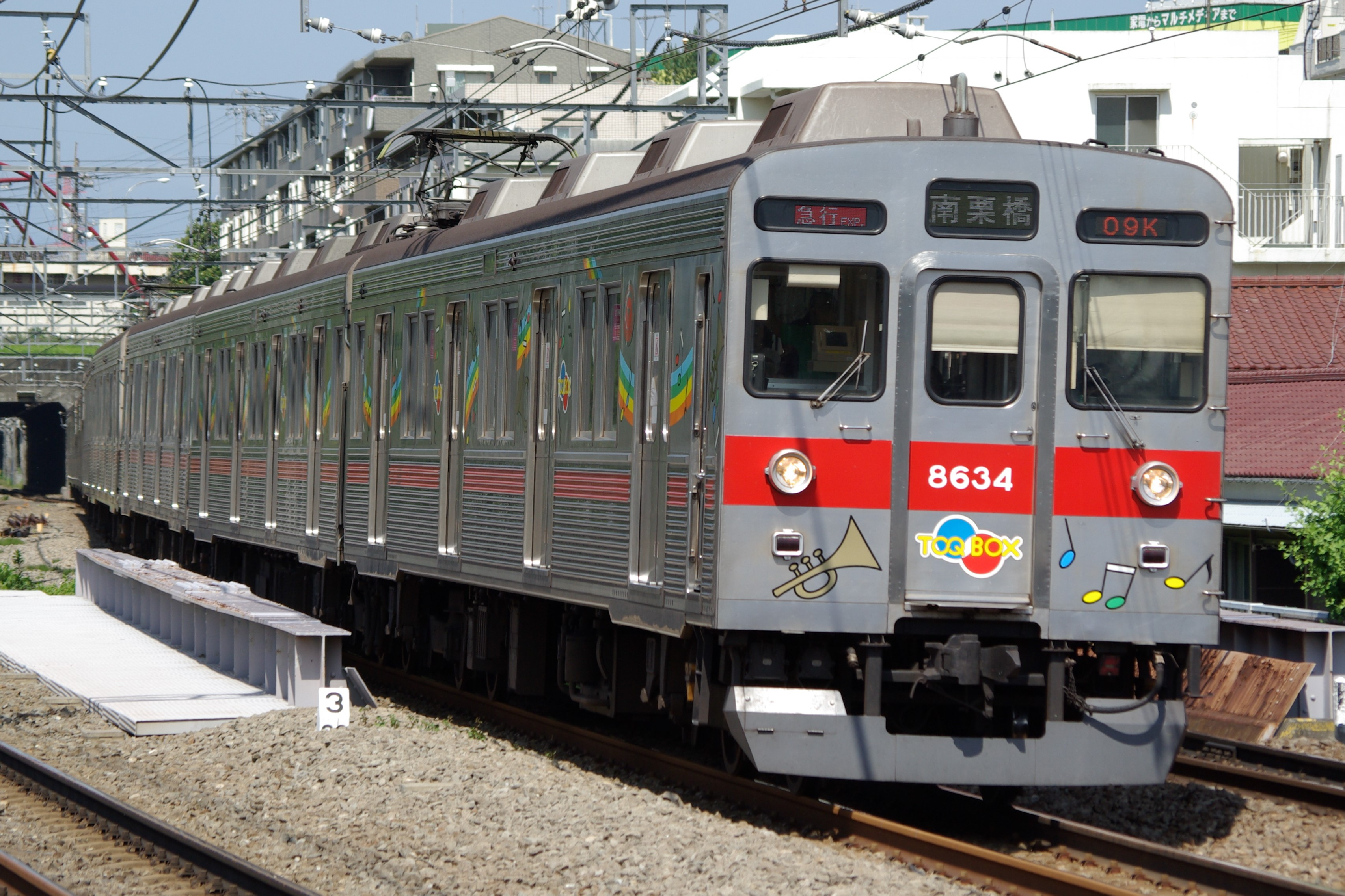 Tokyu 8500 series EMU set 8634 in "TOQ-BOX" livery approaching Fujigaoka Station on the Tokyu Den-en-toshi Line